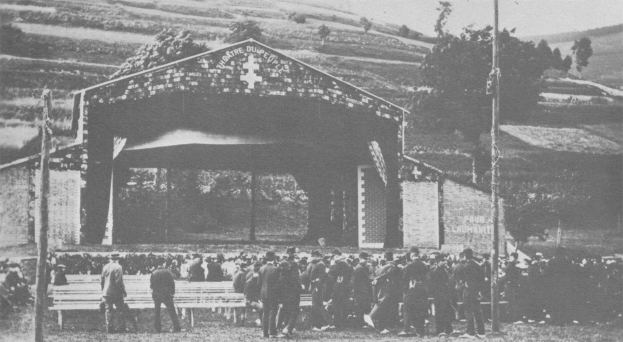 Photograph of Maurice Pottecher's Théâtre du Peuple (People's Theatre) at Bussang in 1895.